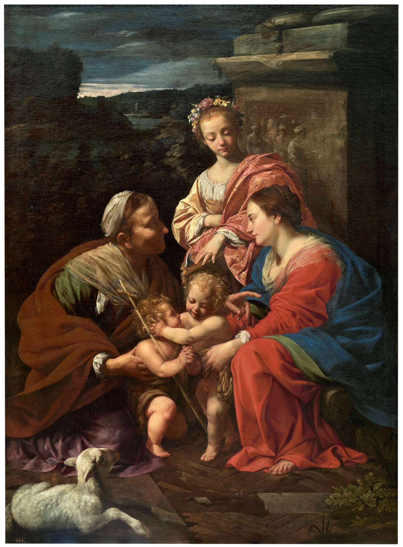 "The Virgin with the Child, Saint Elisabeth, Saint John and Saint Catherine"